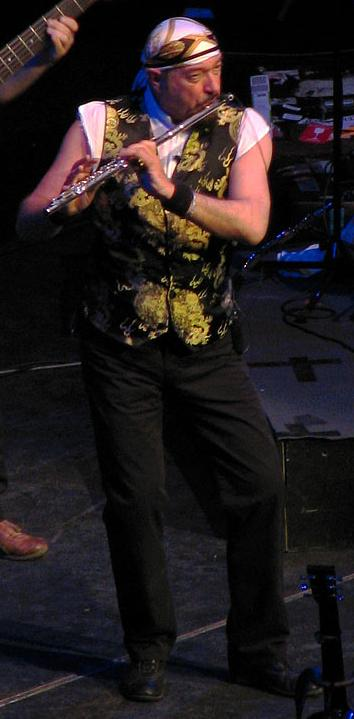 derivative work of Image:Ian Anderson in concert.jpg